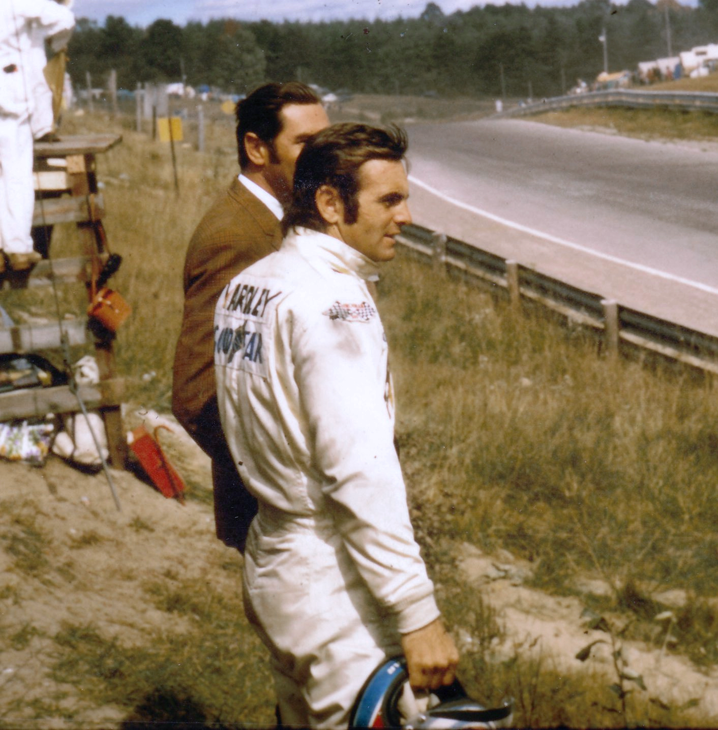 Peter Revson, Canadian Grand Prix, Mosport, Canada, Sept. 23, 1972. Taken minutes after taking Pole Position, losing his left rear wheel nut, then wheel, and crashing at corner two at Mosport Park. He finished second in the Race itself held the next day.